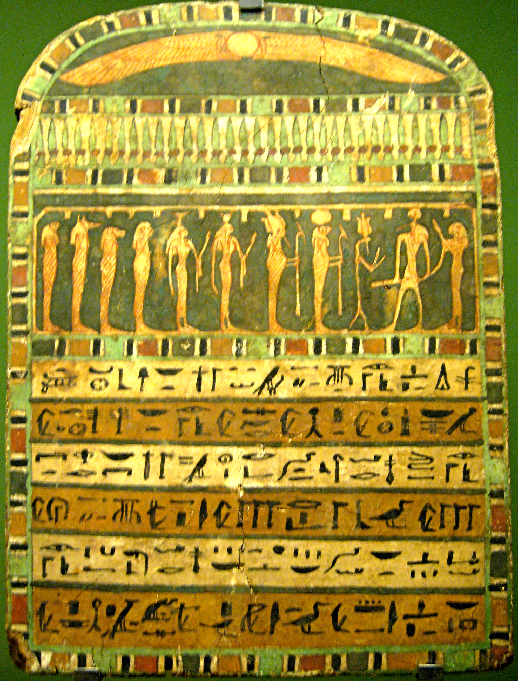 Book of the dead (fragment), ptolemaic period. Luxor, c. 300 BC.